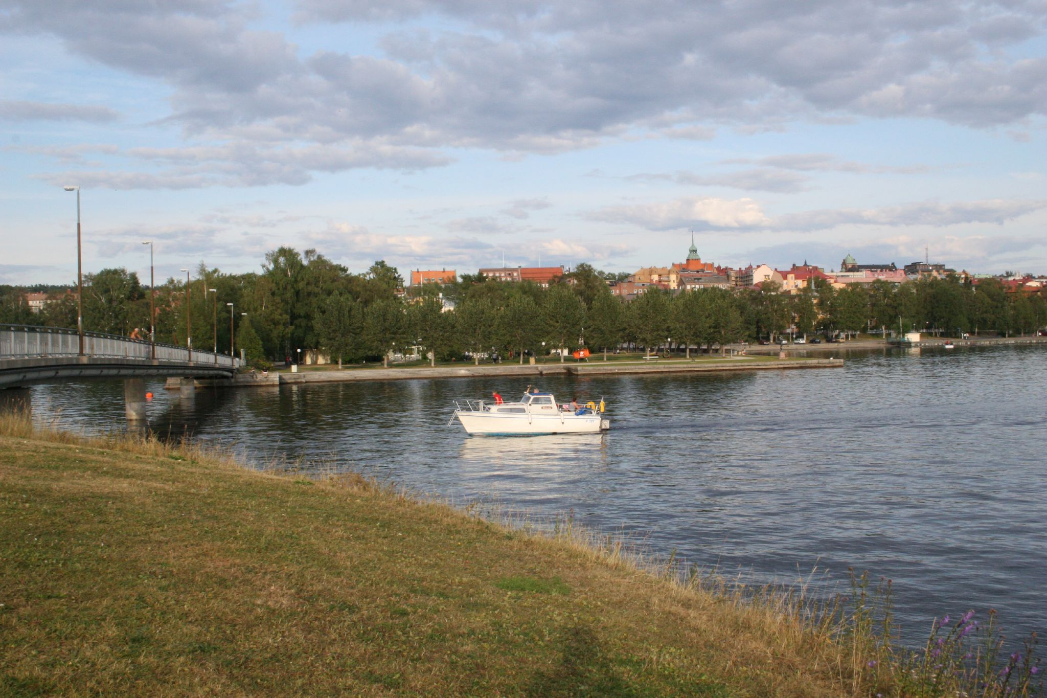 Badhusparken and Östersund seen from a small island between Frösön and the mainland.